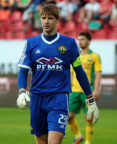 Aleksandr Belenov